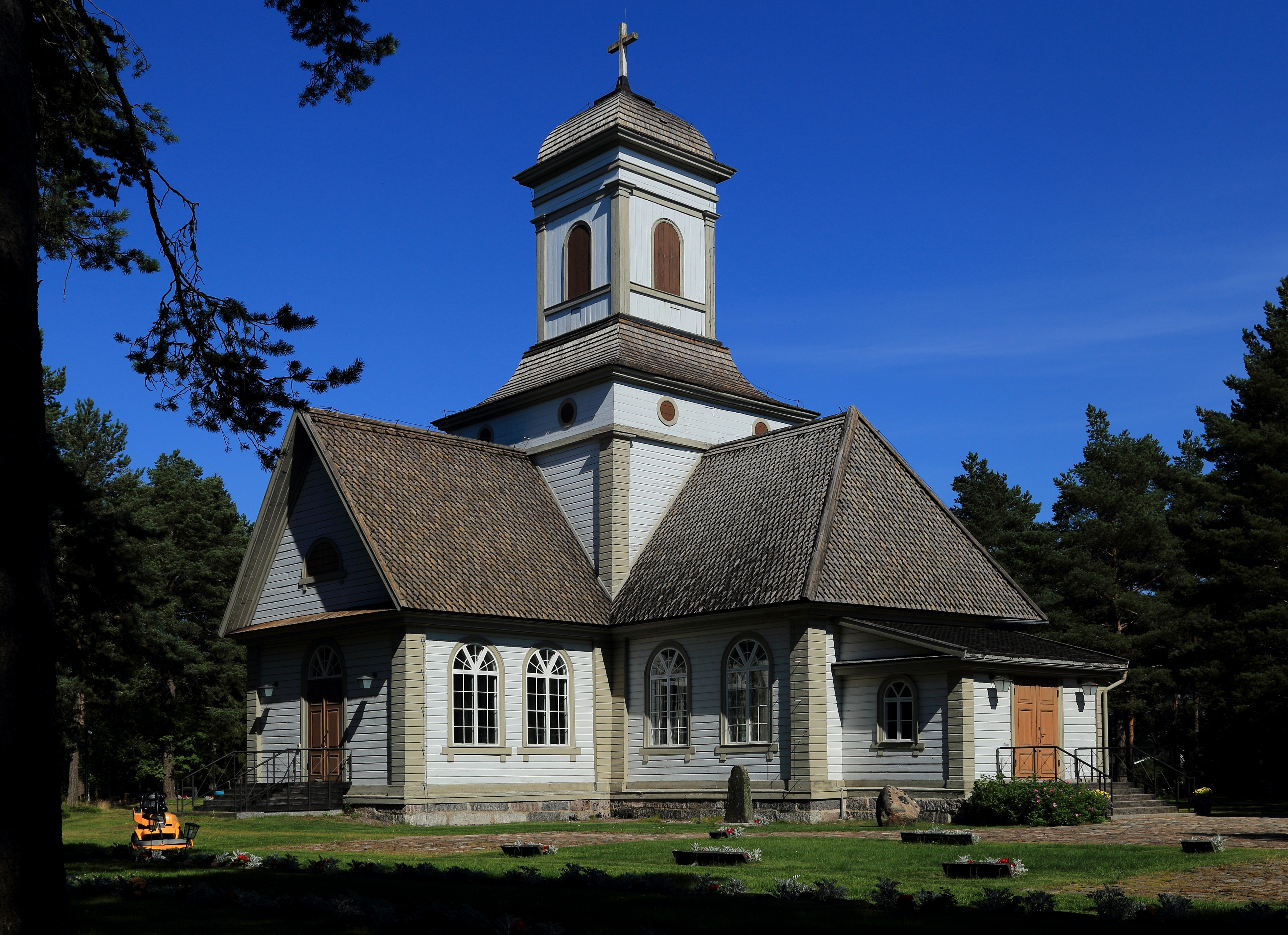 Siikajoki Church